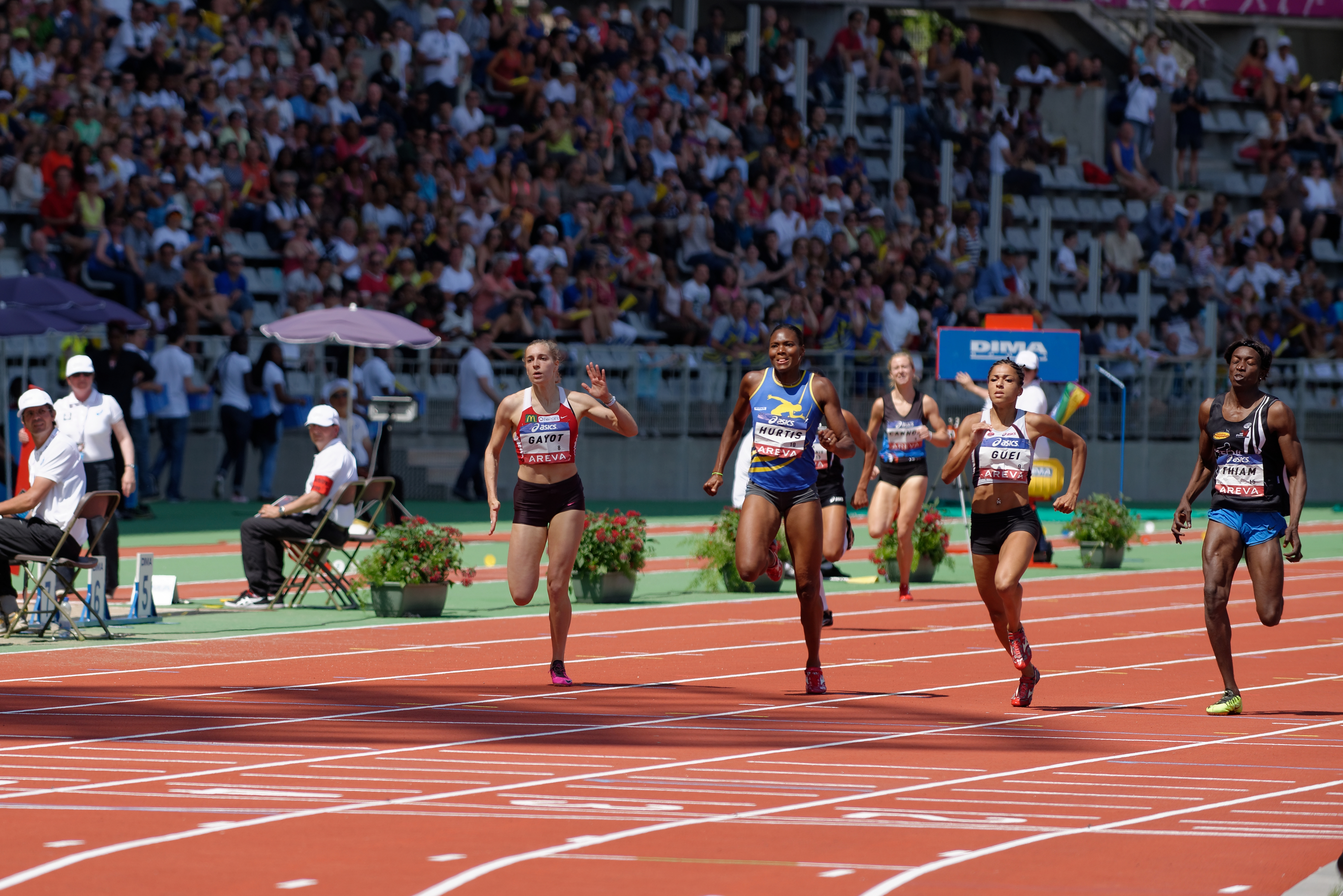 Floria Guei wins the women's 400-metre race in 52′05″ during the French Athletics Championships 2013 at Stade Charléty in Paris, 14 July 2013.